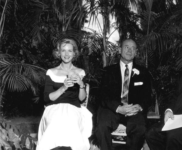 TV actress Barbara Britton poses with men at the Tupperware Jubilee - Orlando, Florida